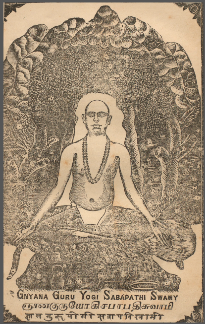 Śrī Sabhāpati Svāmi meditating in padmāsana.